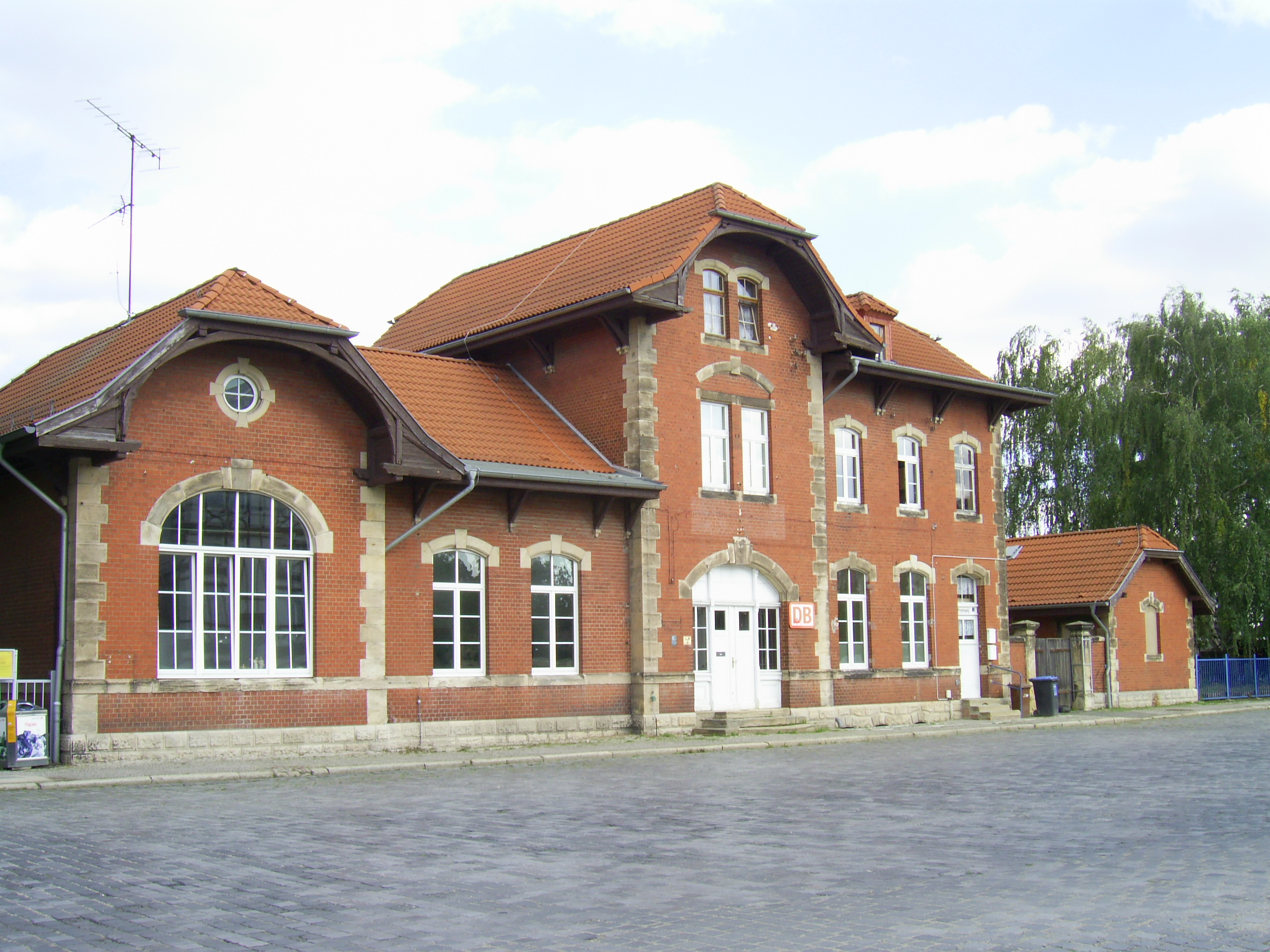 East train station of Naumburg (Saale) in Saxony-Anhalt in Germany